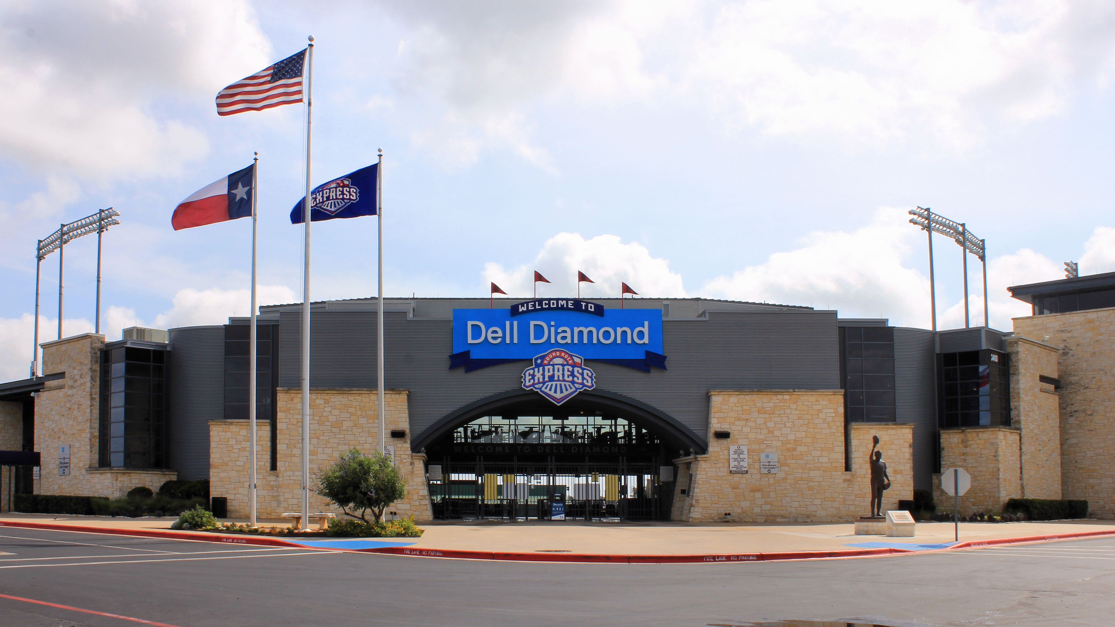 The southwest entrance to the Dell Diamond in Round Rock, Texas United States. Dell Diamond is the home stadium of the Round Rock Express class Triple-A baseball team, affiliate of the Texas Rangers major league baseball team.